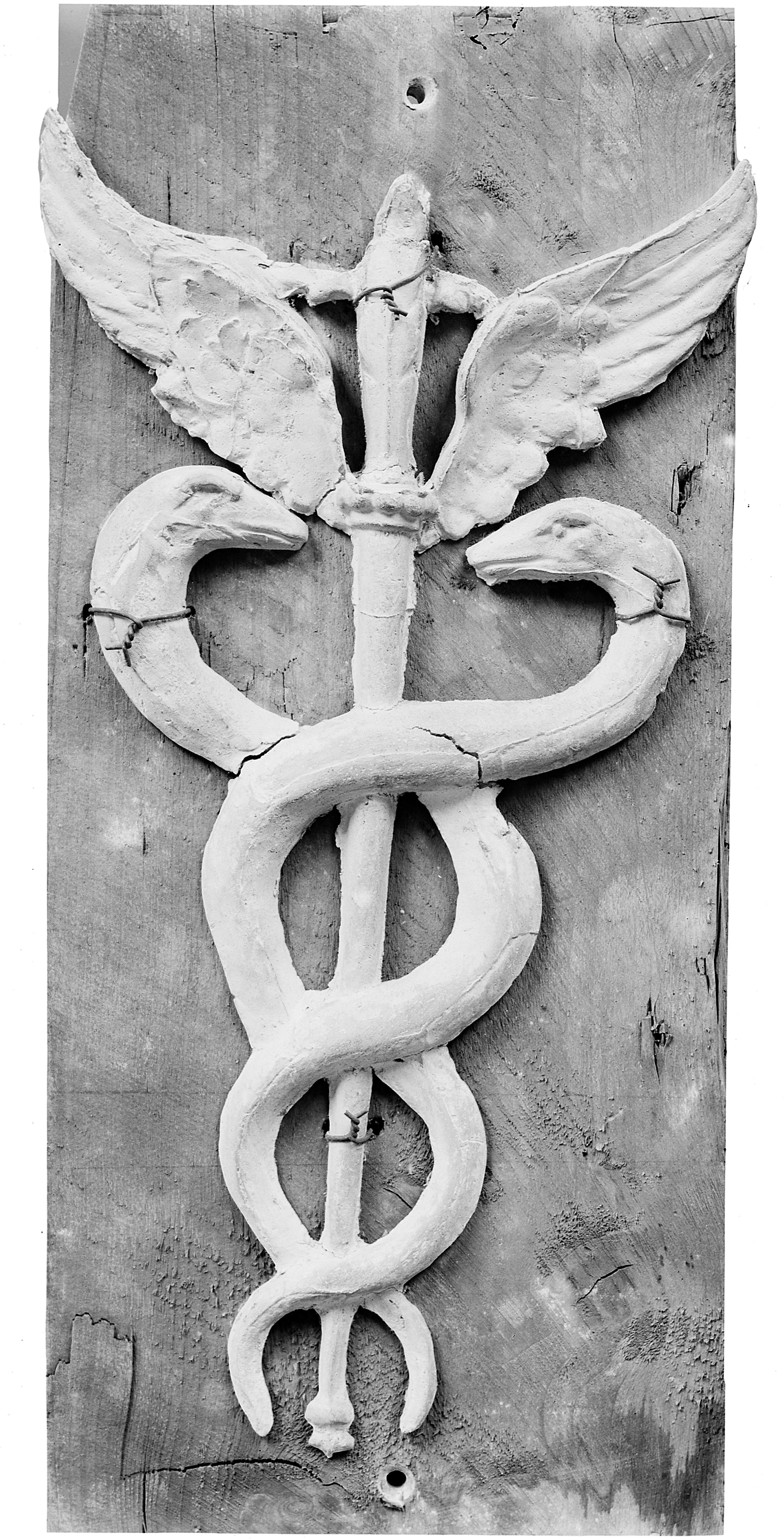 Plaster cast of sign. Wellcome Images Keywords: caduceus